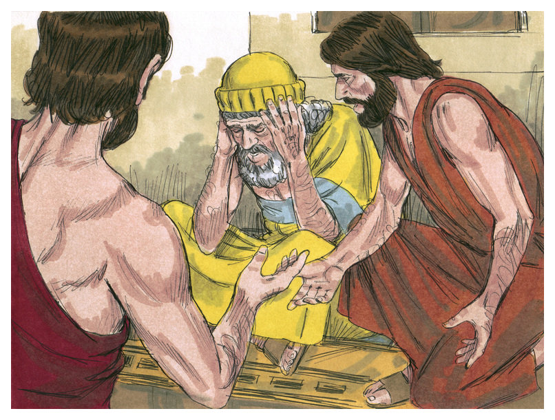 Biblical illustration of Book of Genesis Chapter 19